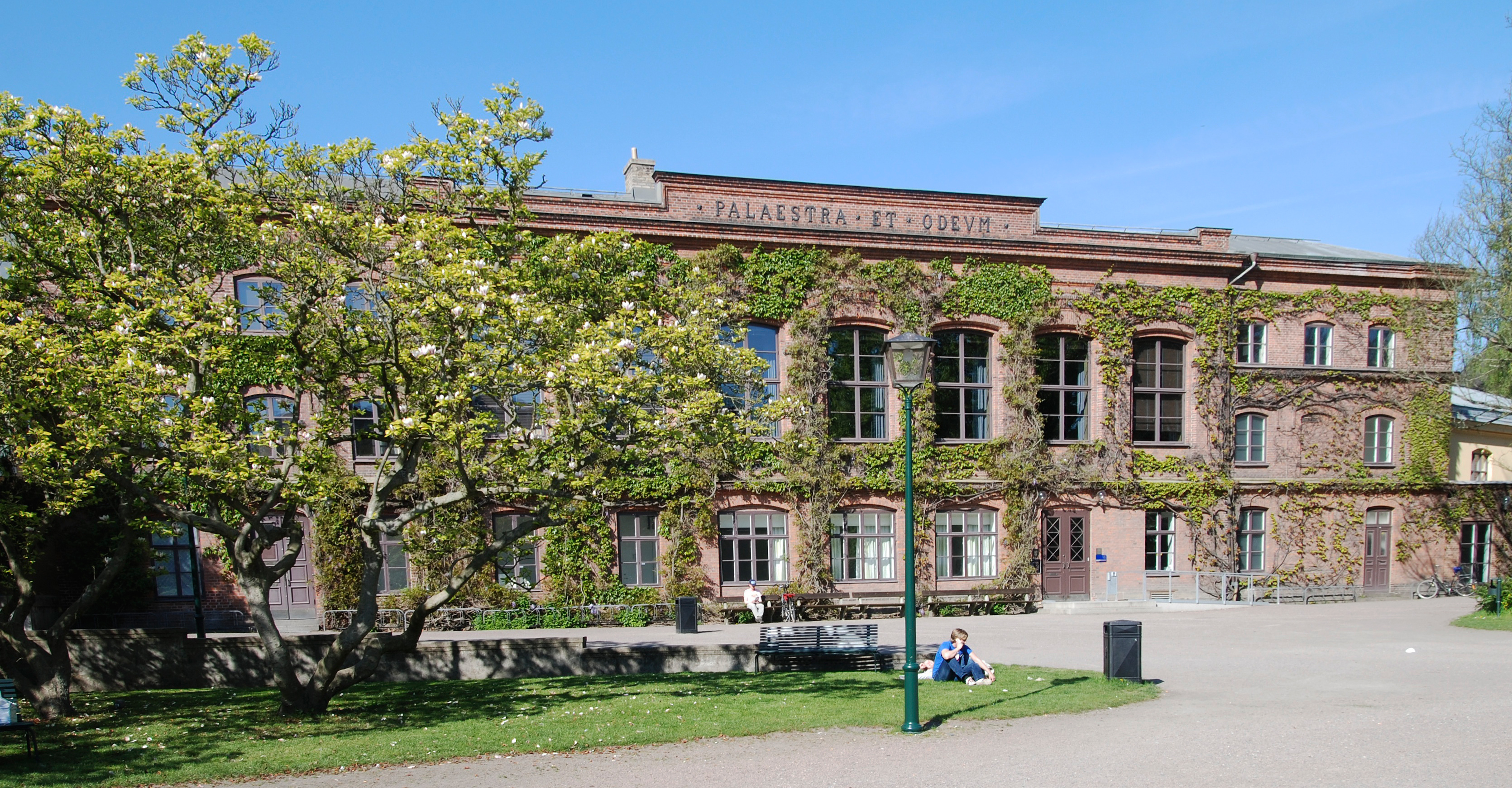 Palaestra et Odeum in Lund, Scania, Sweden